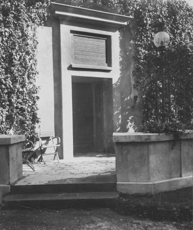 Gedenktafel aus dem Jahr 1908 zur Erinnerung an den Aufenthalt des Kaisers im Jahr 1851. Aus dem Album: 'Zur Erinnerung / an den Aufenthalt Seiner Kaiserlichen und Königlich / Apostolischen Majestät / Kaiser Franz Josef I / im Sanoker Schloss am 31. Oktober und 1. November 1851.'